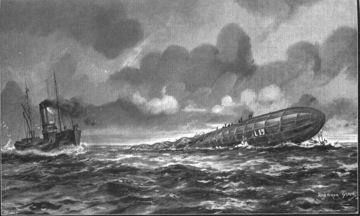 Drawing of the Zeppelin L19 sinking in the North Sea by Algernon Black Original caption: “THE "KING STEPHEN" TRAWLER AND ZEPPELIN "L 19" INCIDENT in the NORTH SEA,- Bringing retribution home to the Zeppelin air pirates after their raid over England on Monday night last week. The non-rescue of the crew of this wrecked airship is a direct outcome, and a very strong object-lesson, of the estimate in which the word of the Germans is now held by civilised people. had they been other than Germans they would without question have been immediately rescued and brought safely to land, but from past experience the word of the Hun is now synonymous of nothing less than fraud and lying. The Bishop of London has expressed the feelings of most Britons, in regard to this incident, in the following words:-"The whole of the English people ought to stand by the skipper of the trawler that came upon the ruined Zeppelin and could not trust the word of the Germans. Had he admitted those 22 Germans into his boat they might have turned upon the crew , and the whole German Press would have applauded their action as a clever bit of strategy. Any English sailor would have risked his life to save a human life, but the sad thing was that the chivalry of war had been killed by the Germans, and their word could not be trusted."” — From an original drawing by Algernon Black